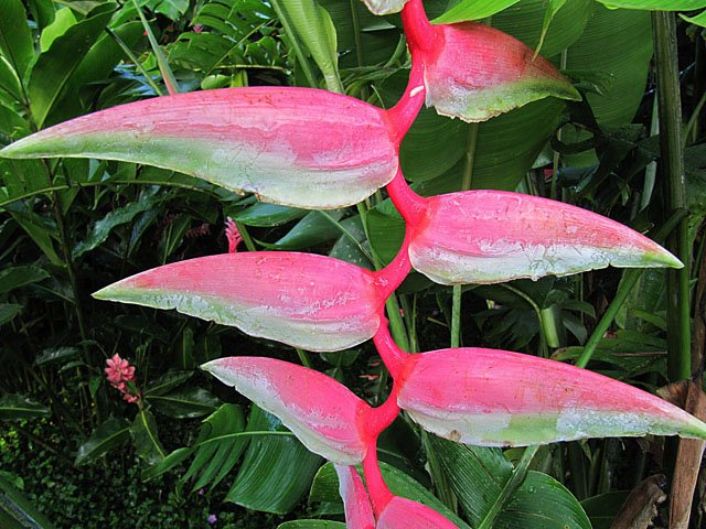 Dick Culbert: With bright pink bracts, Heliconia chartacea has traveled far from its home in Brazil and begat many cultivars. This specimen brightens a garden at Sarapiqui Lodge in Costa Rica.